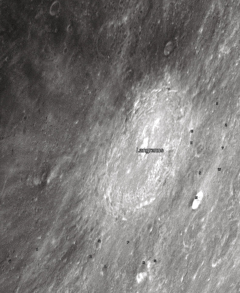 Langrenus lunar crater as seen from Earth with satellite craters labeled